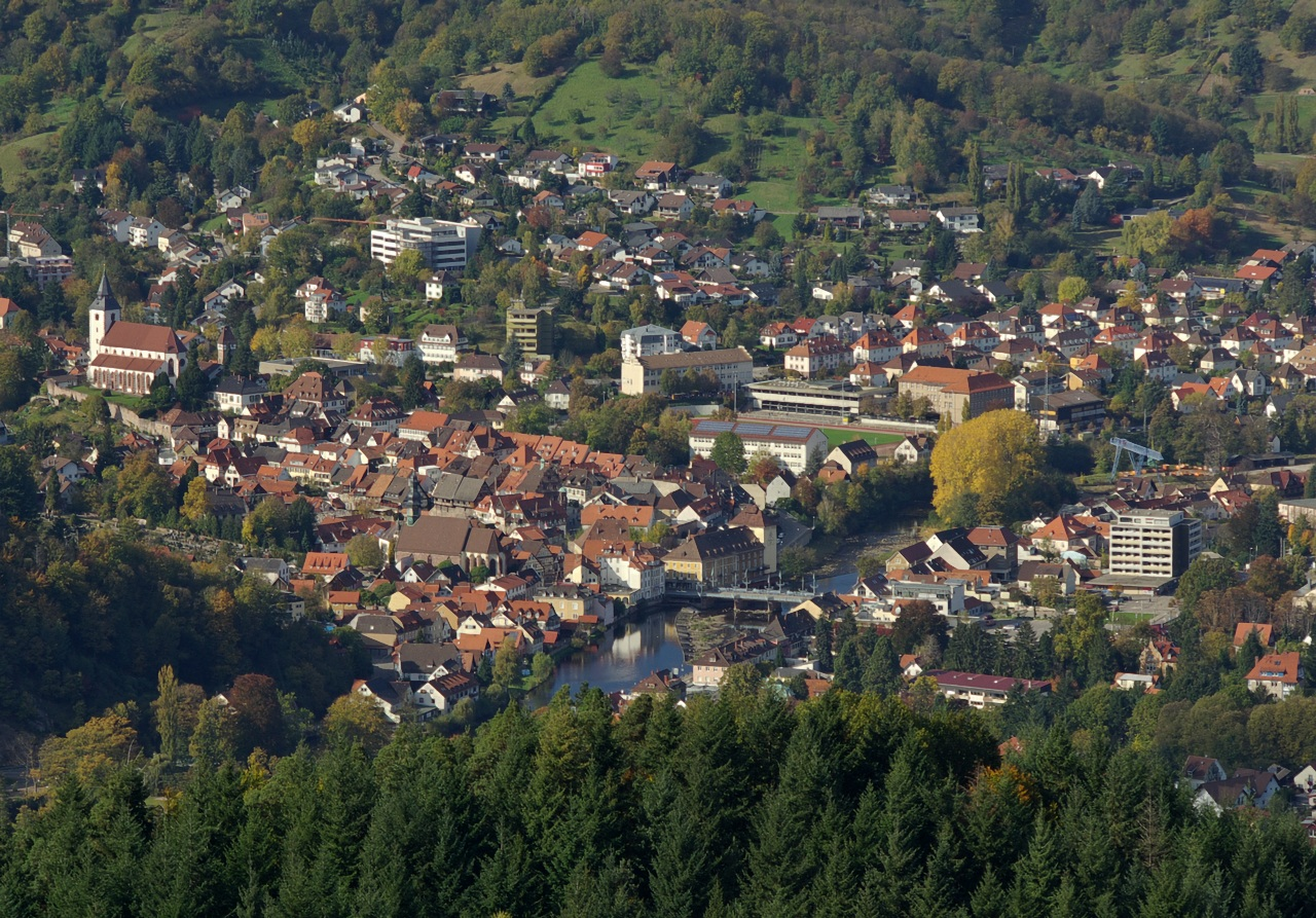 Gernsbach von Südosten; Gernsbach seen from the southeast